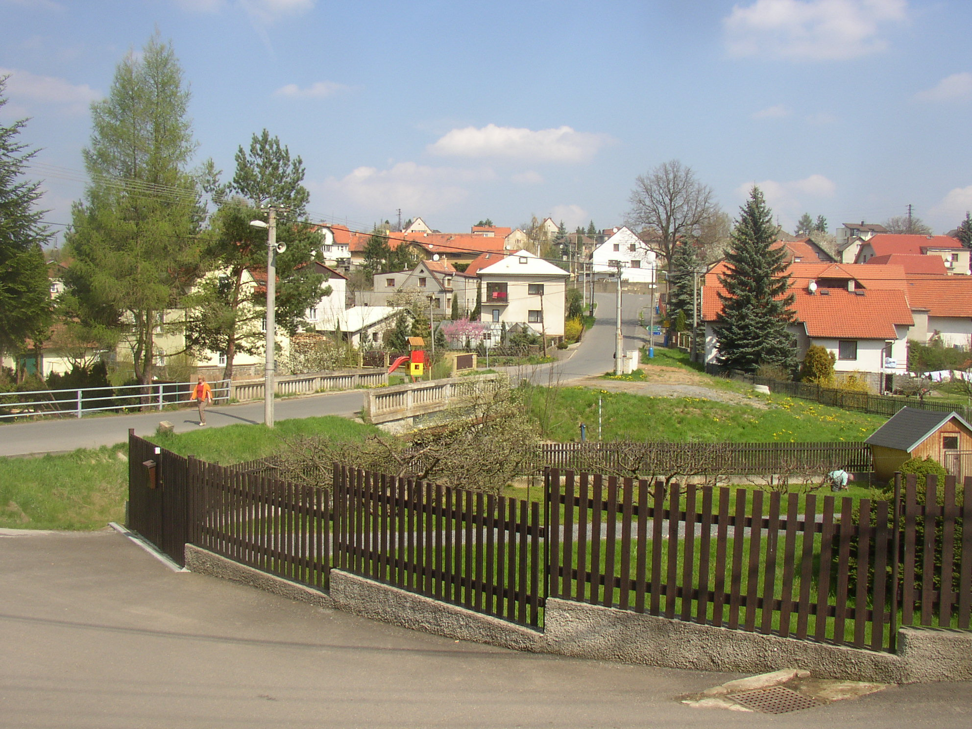 Mirošovice, Prague-East District, Czech Republic. A view from Ke Mlejnu street through Senohrabská street towards north. Bridge over the Kunický potok stream is also visible.